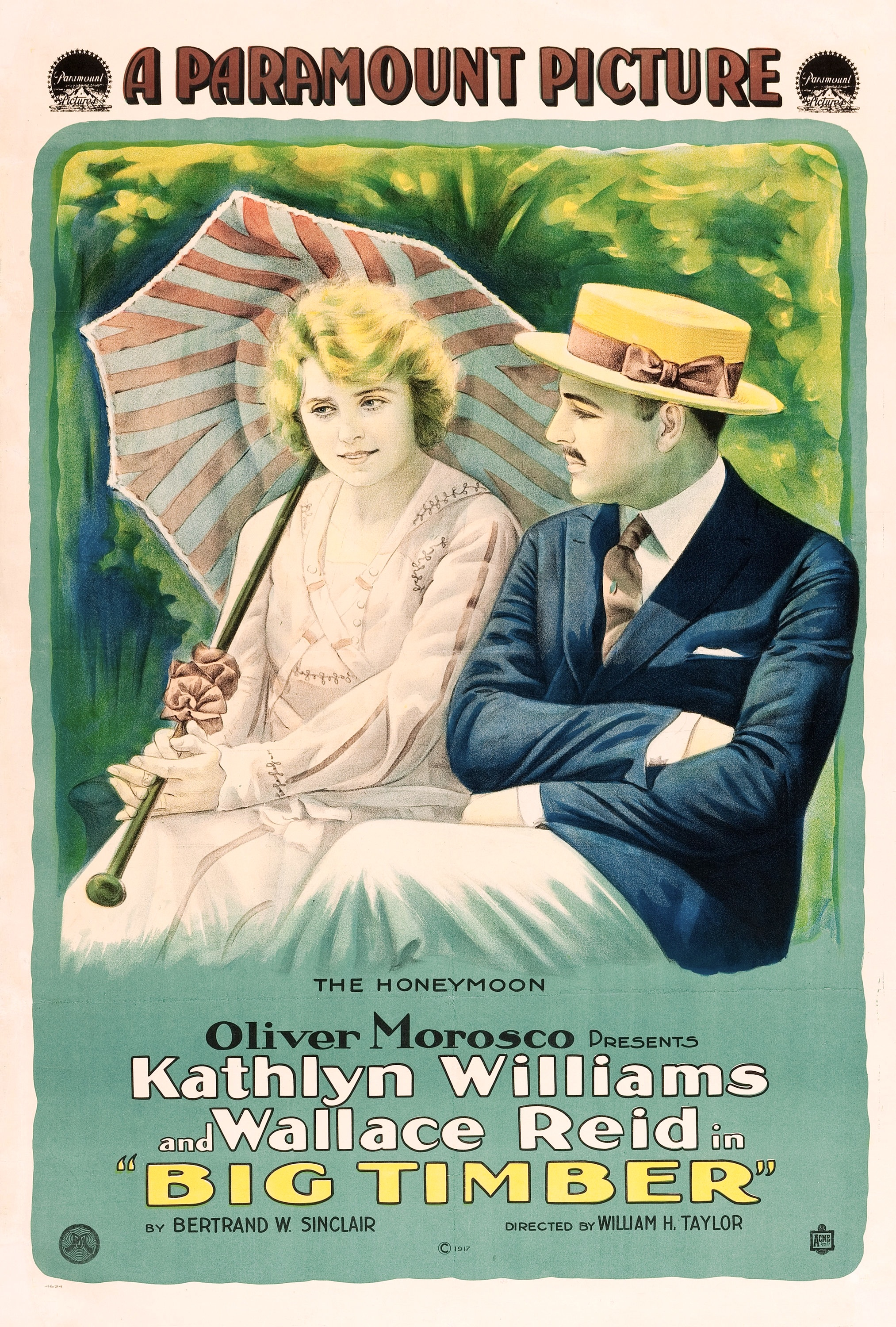 For article Big Timber, this is a theatrical poster for the 1917 film Big Timber, and was first published before 1923.